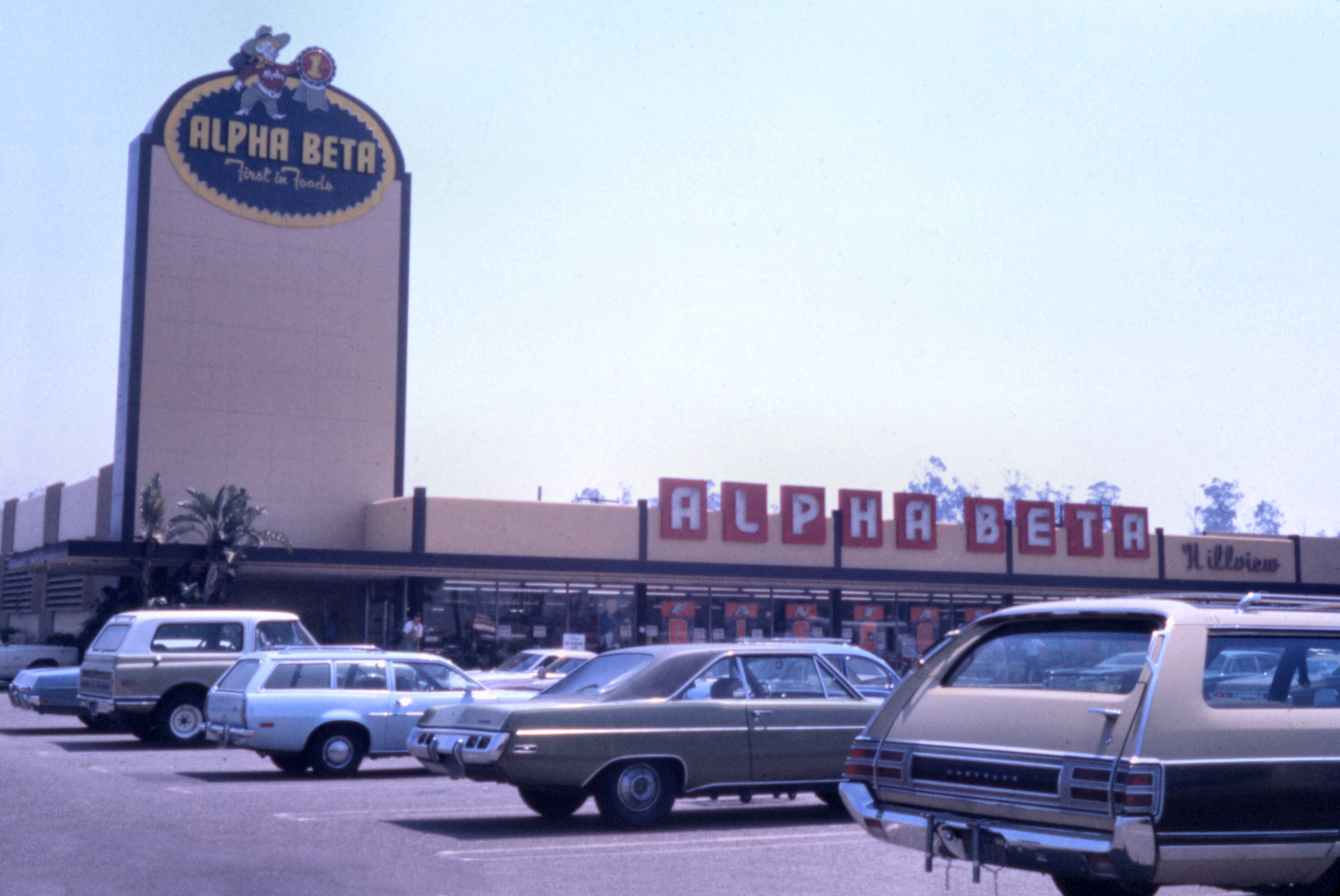 An Alpha Beta supermarket at Tustin Avenue & 17th Street in Santa Ana, California, in 1974. There are no known copyright restrictions on this image. All future uses of this photo should include the courtesy line, "Photo courtesy Orange County Archives." Photo by Werner Weiss, from the Werner Weiss Collection, Acc#2013.6.